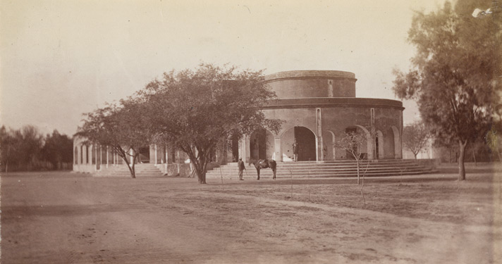 District Court House Gujranwala